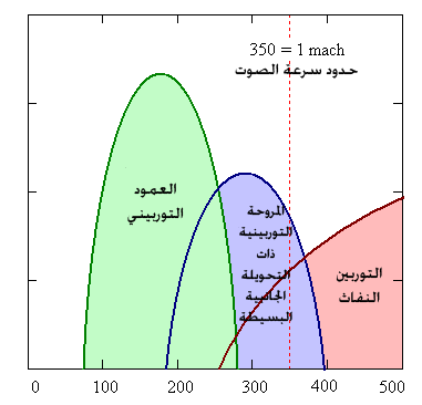 Relative suitability of the turboshaft (left), low bypass turbofans (middle) and ordinary turbojects (right) for the flight at the 10 km attitude in various speeds